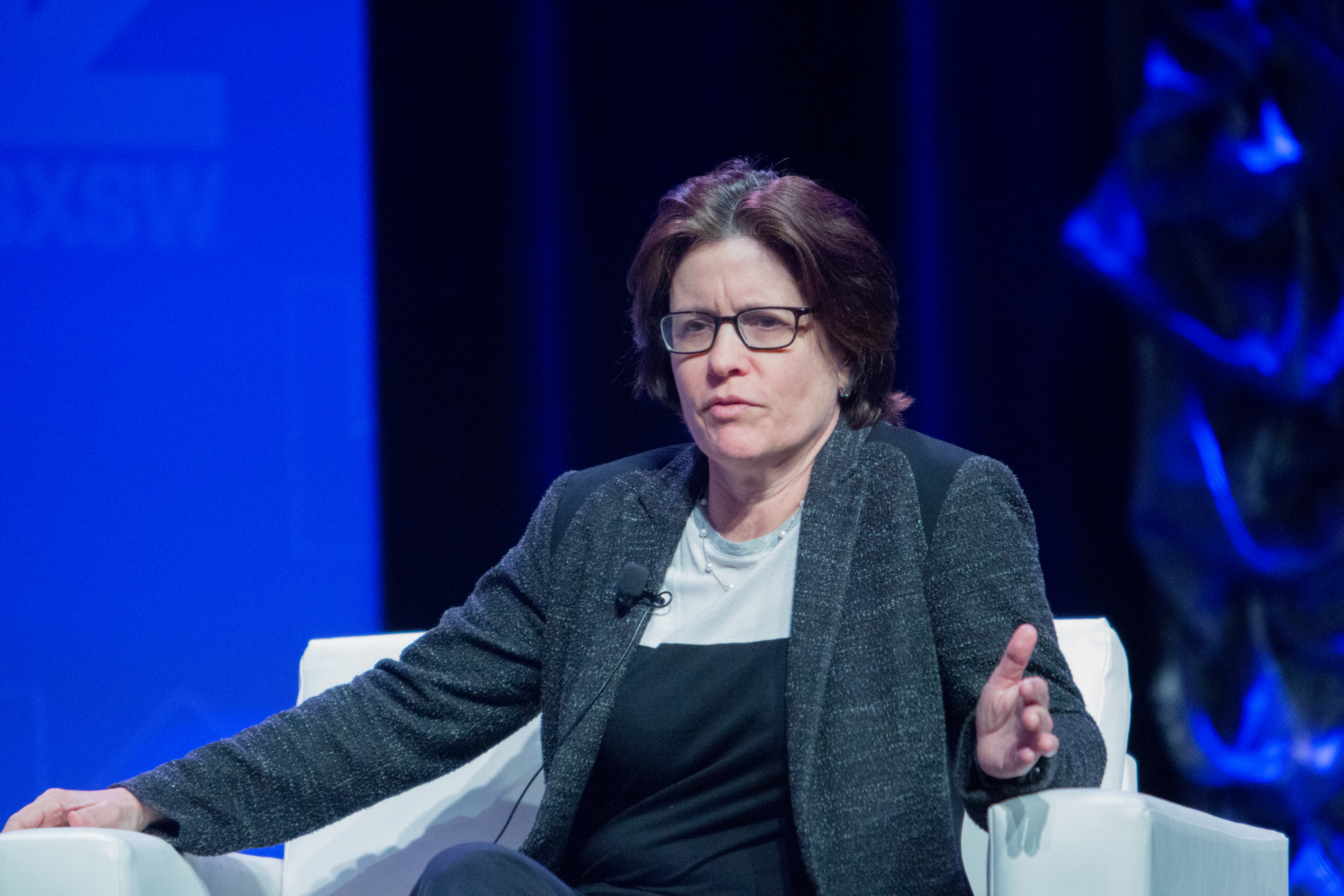 From the session "Kara Swisher in Conversation with Crooked Media Founders" Photo: Ståle Grut / NRKbeta Read more here.